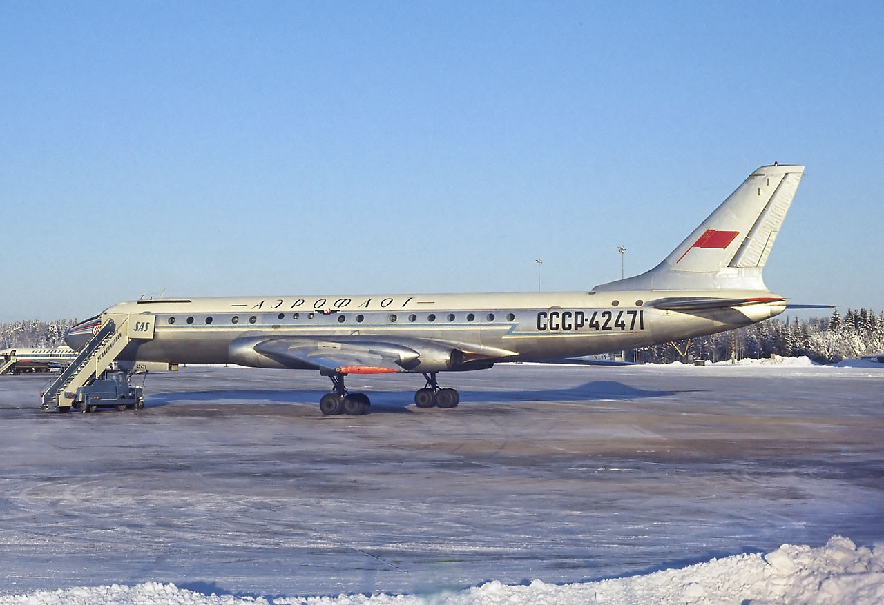 Aircraft Aeroflot Tupolev Tu-104B Reg.: CCCP-42471 MSN: 021204 Location & Date Stockholm - Arlanda (ARN / ESSA) Sweden - November 30, 1968